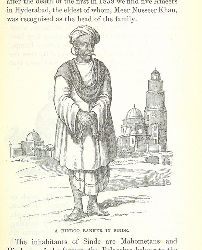 Man in Sindhi angerkho top (1845)